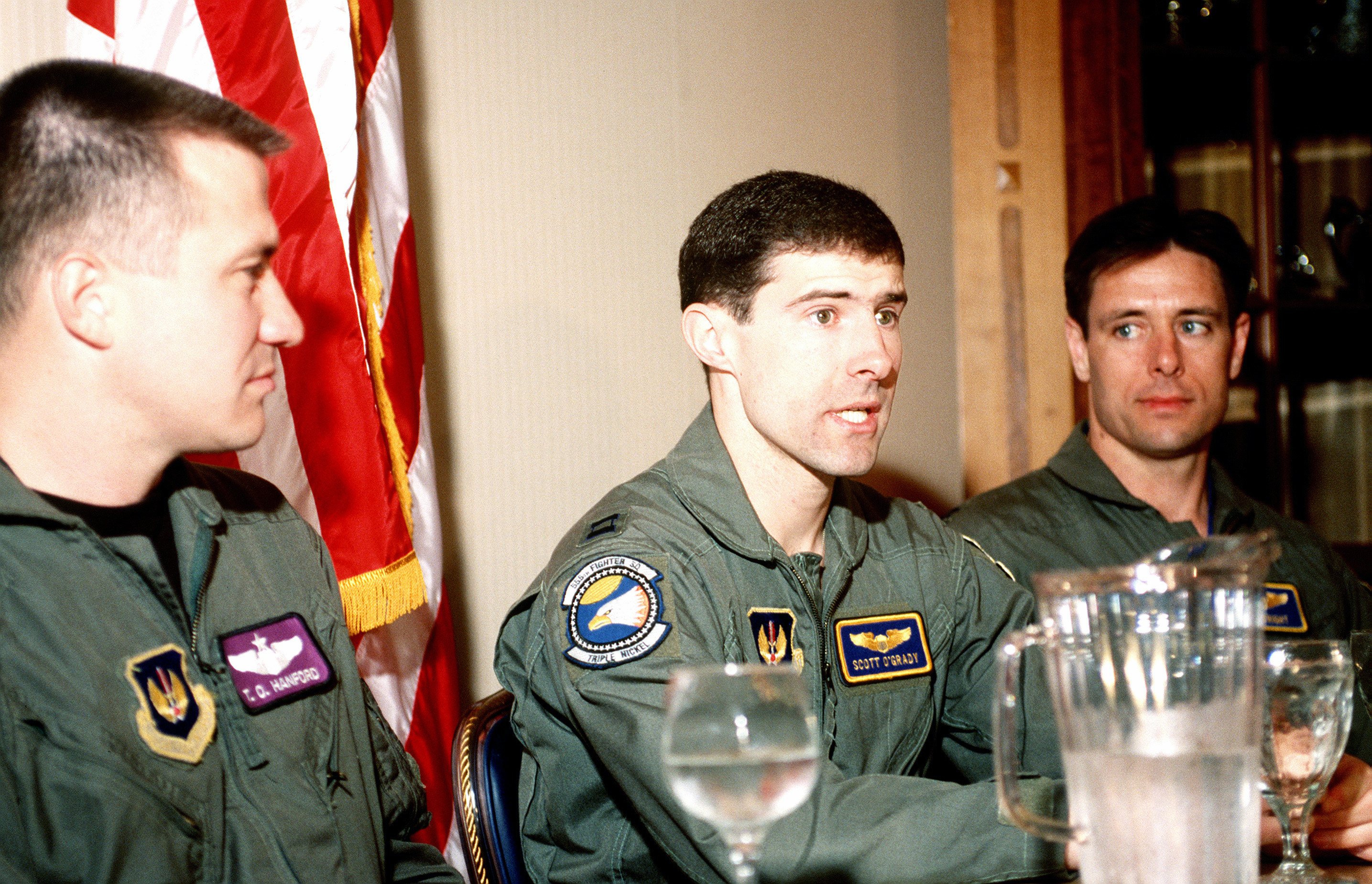 US Air Force description: Captains T. O. Hanford (left), Scott F. O`Grady (center), and Bob Wright (right) speak at a press conference. Captain O`Grady`s F-16 Fighting Falcon was shot down over Bosnia on June 2, 1995, by Serbian forces. This occured while he was flying in support of Operation Deny Flight. Captain Hanford made the initial radio contact with O`Grady before his rescue and Wright was O`Grady`s lead man the day he was shot down. US Department of Defense description: US Air Force Captains T. O. Hanford (left), Scott F. O'Grady (center), and Bob Wright (right) speak at a press conference. Capt. O'Grady's F-16 Fighting Falcon was shot down over Bosnia on June 2, 1995, while he was flying in support of Operation Deny Flight. After 6 days of evasion, he was rescued by US Marines from the 24th Marine Expeditionary Unit, deployed from the USS KEARSAGE (LHD-3). Capt. Hanford made the initial radio contact with Capt. O'Grady before his rescue and Capt. Wright was Capt. O'Grady's lead man the day he was shot down.